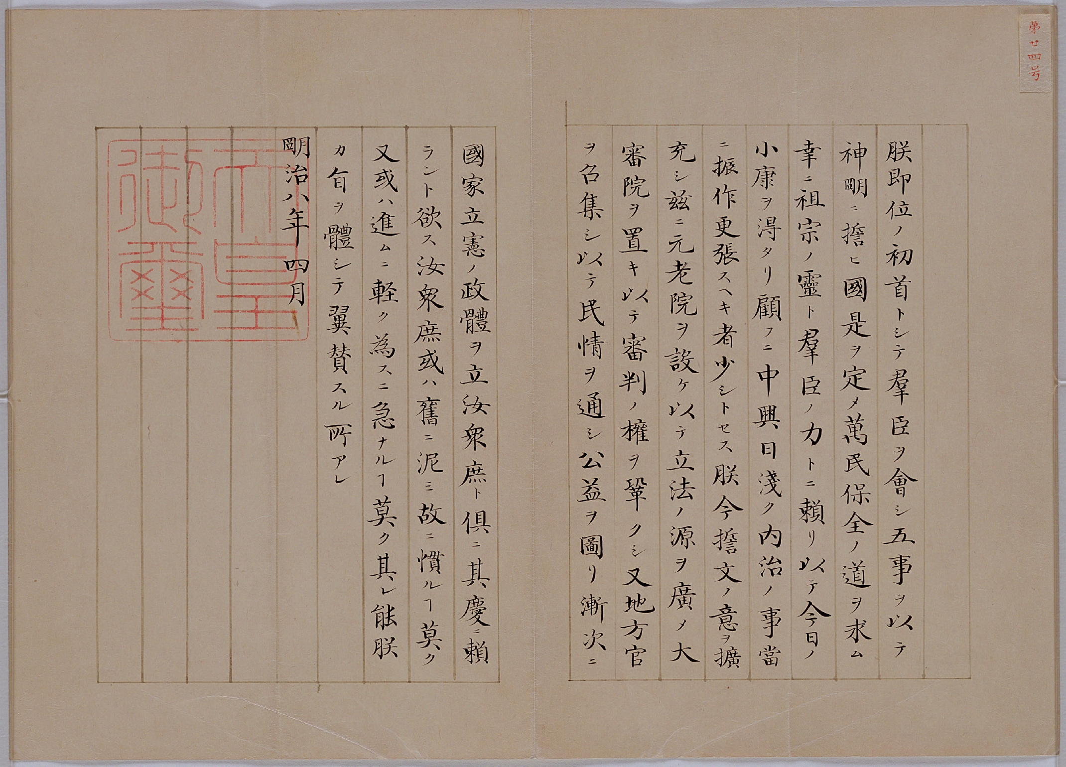 Imperial Rescript on Establishment of Constitutional Regime